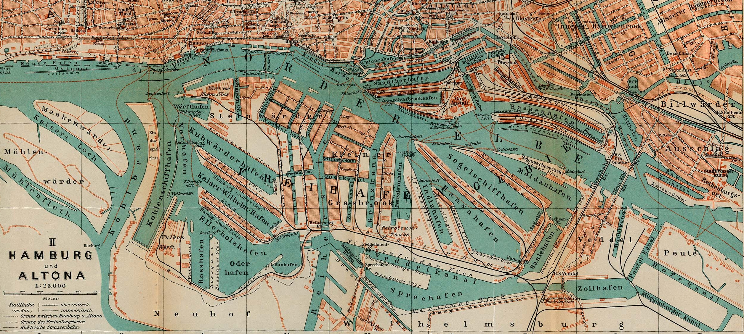 Map of Hamburg and Altona, Germany, 1910